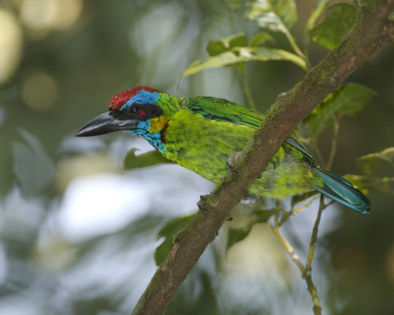 Red-crowned Barbet, Megalaima rafflesii Panti Forest, Johor, Malaysia 3rd. September 2006